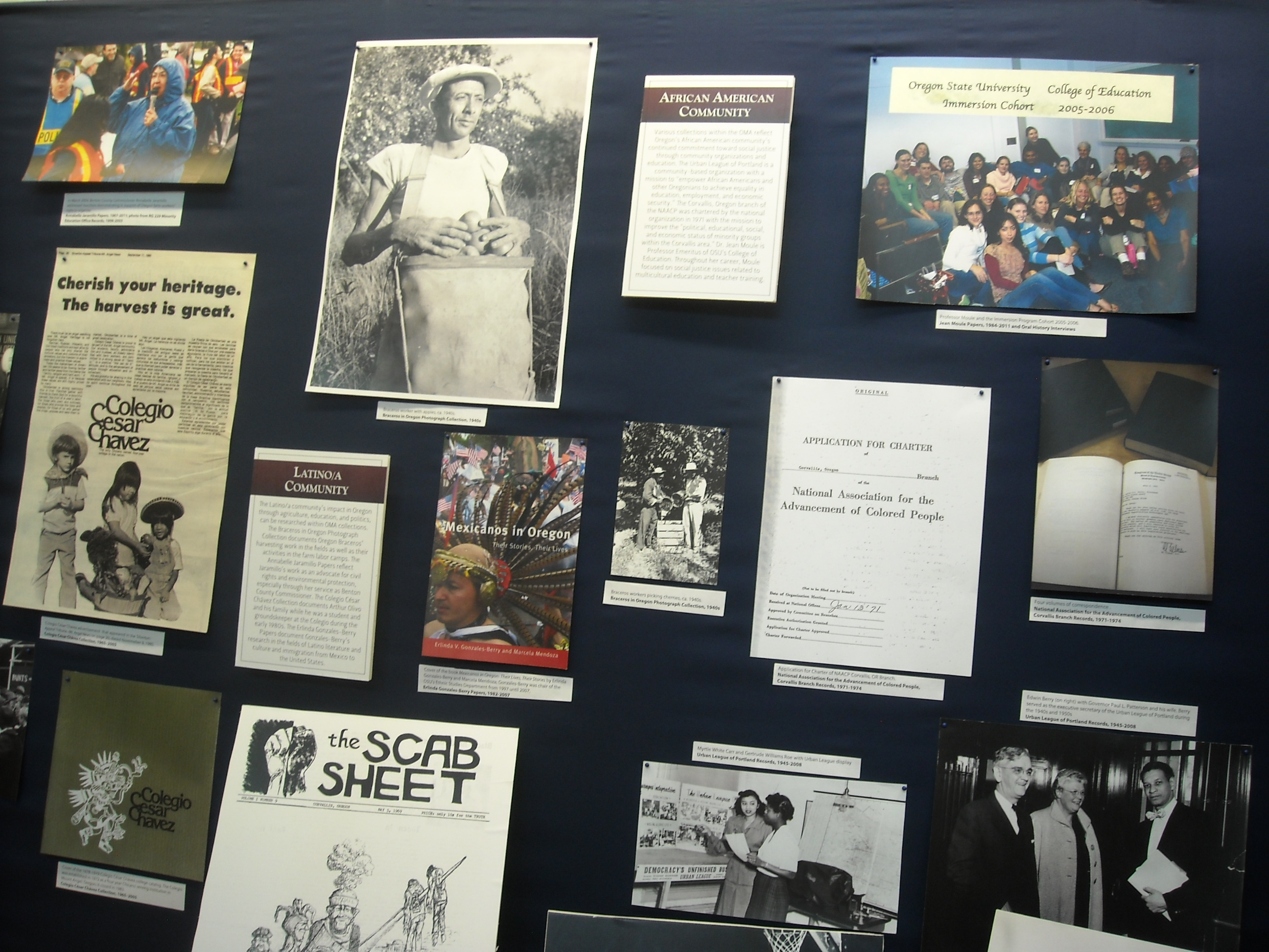 Foto del Archival Multicultural de OSU.